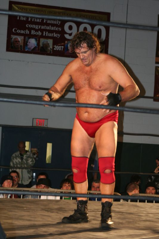 Professional wrestler Tracy Smothers in the ring at a Jersey All Pro Wrestling show November 15, 2008.